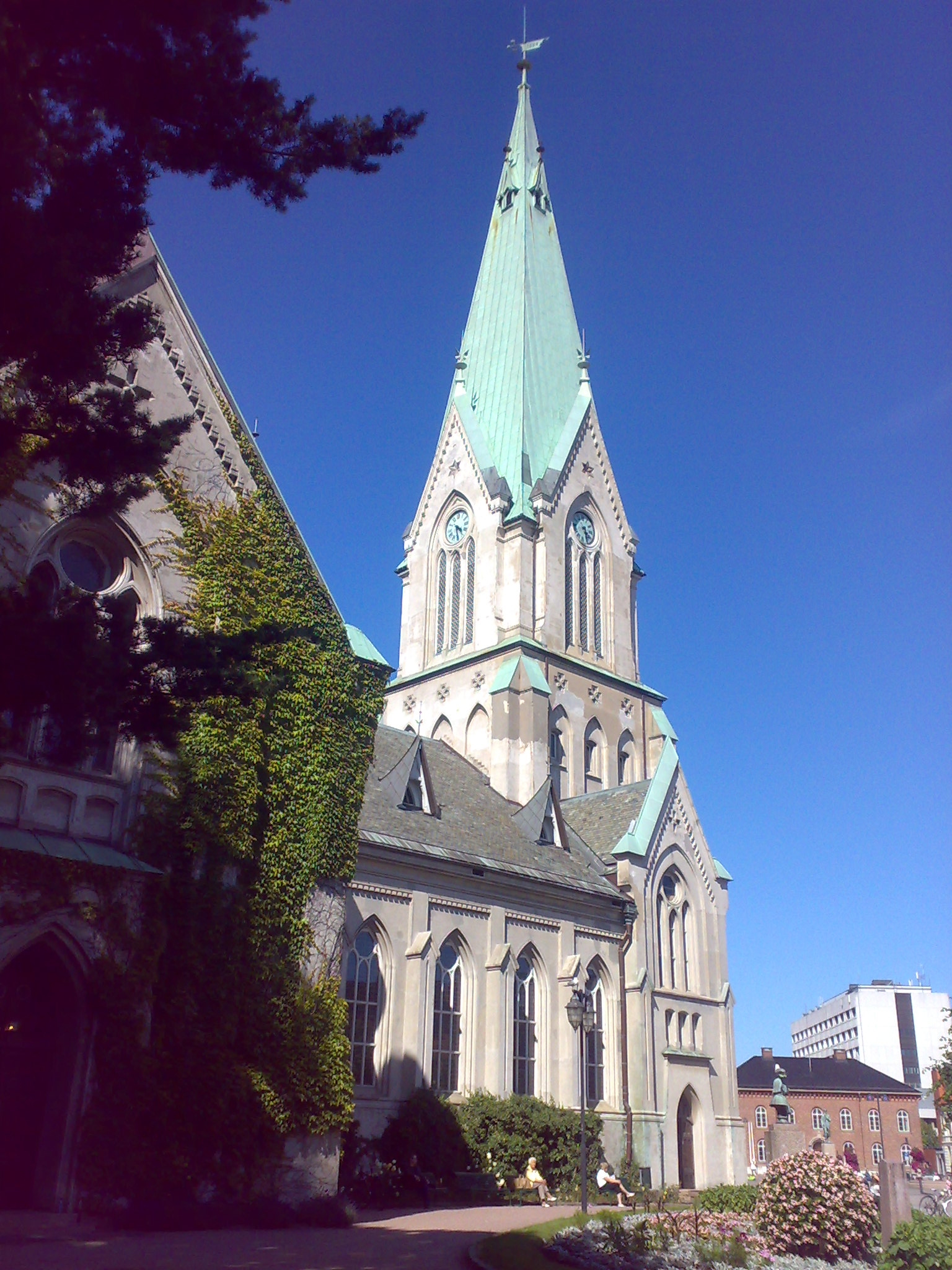 Kristiansand Domkirke. Bishopric and parish church. Kristiansand, Norway